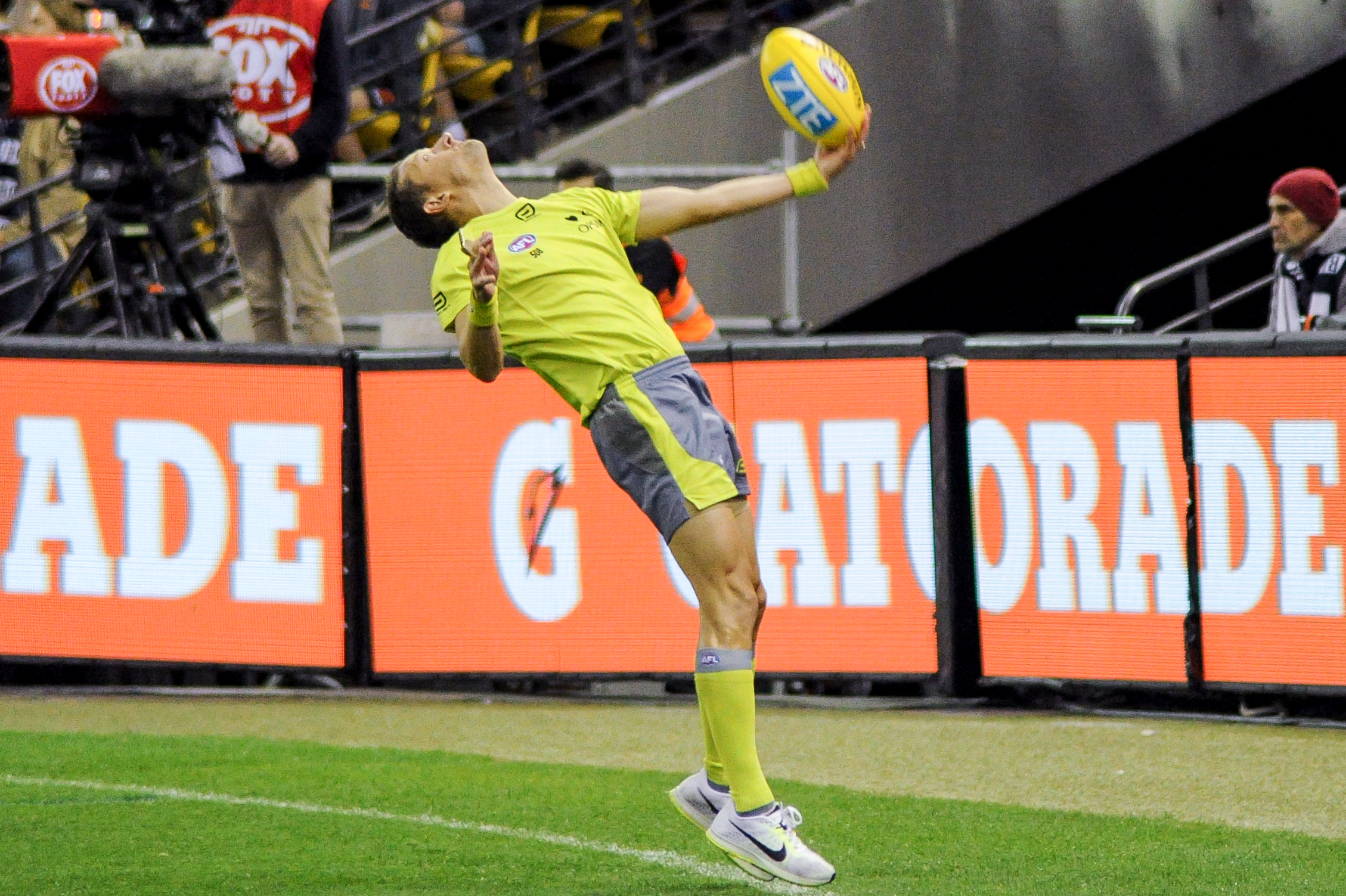 Boundary umpire throw in during the AFL round twelve match between Carlton and Greater Western Sydney on 11 June 2017 at Etihad Stadium in Melbourne, Victoria.